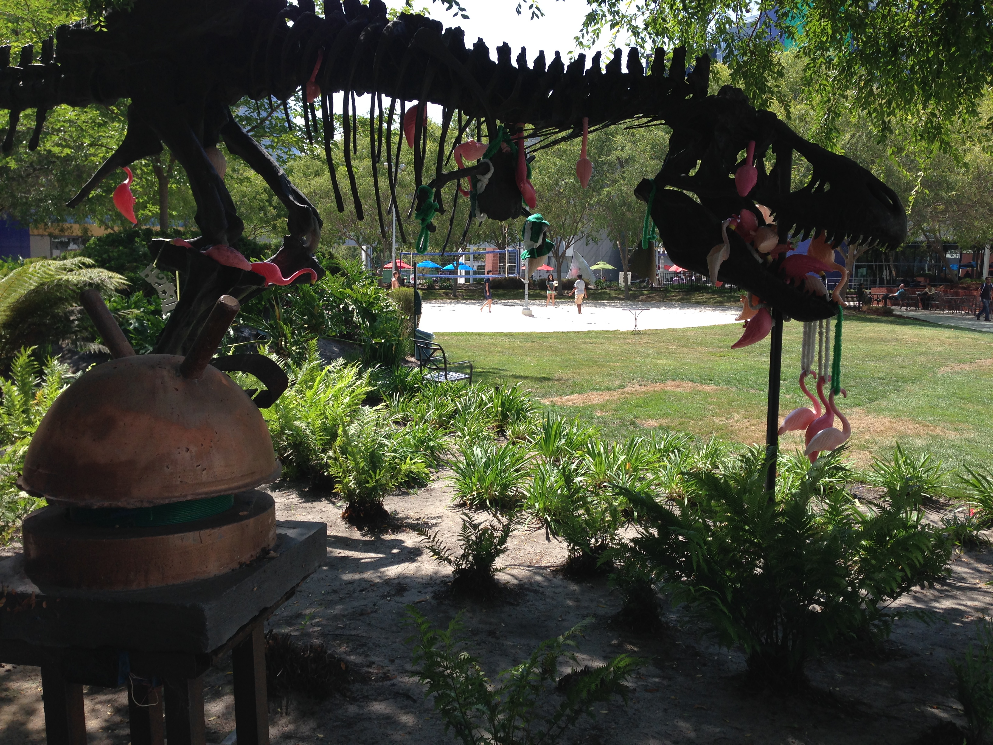 Mountain View, California